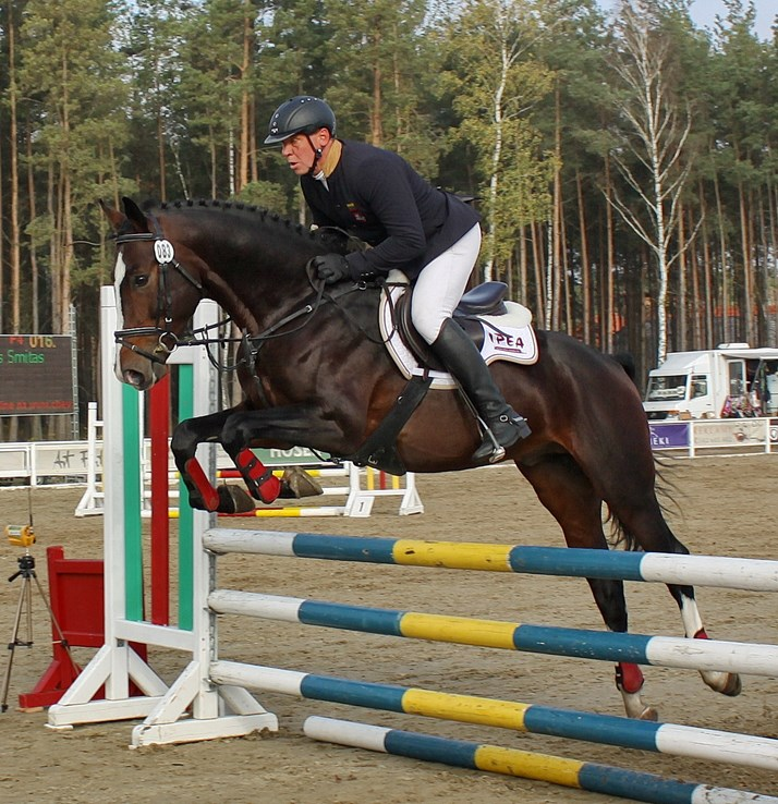 Show jumping in Kwieki (2016).